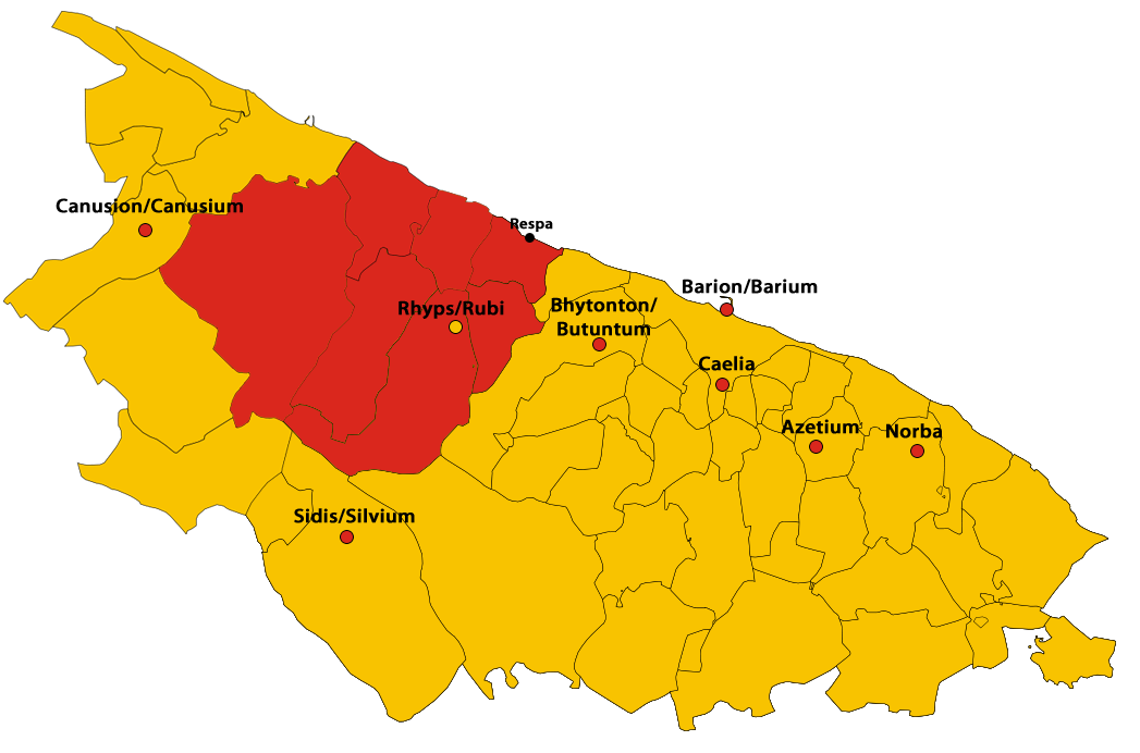 Map of Apulia in 3rd Century B.C., Ruvo's territories are marked in red